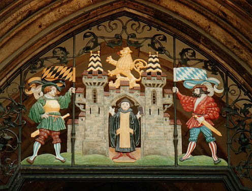 Monk and two soldiers (Landsknecht) on Munich's coat-of-arms, Germany.